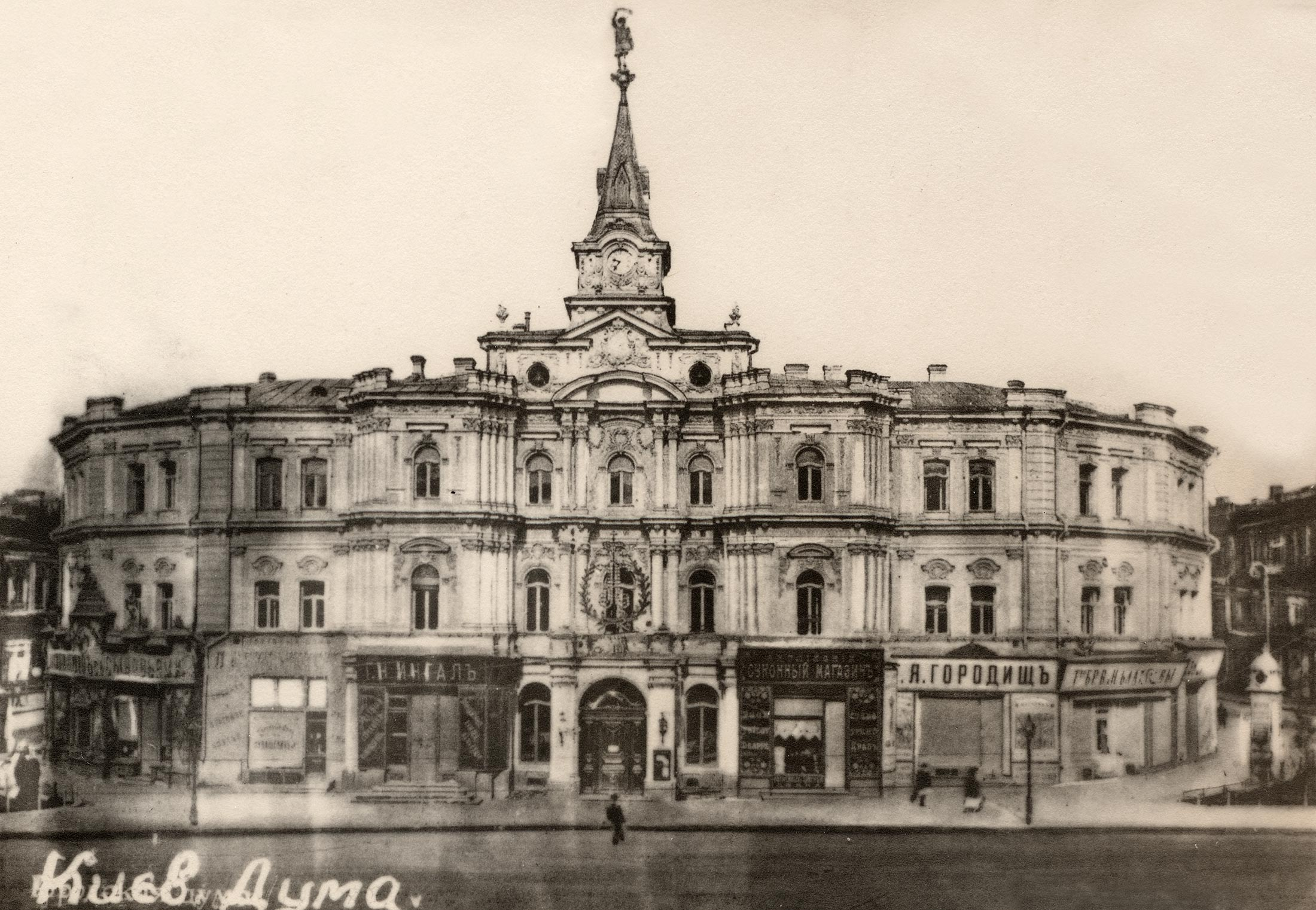 Kyiv City Duma in the late 1800s